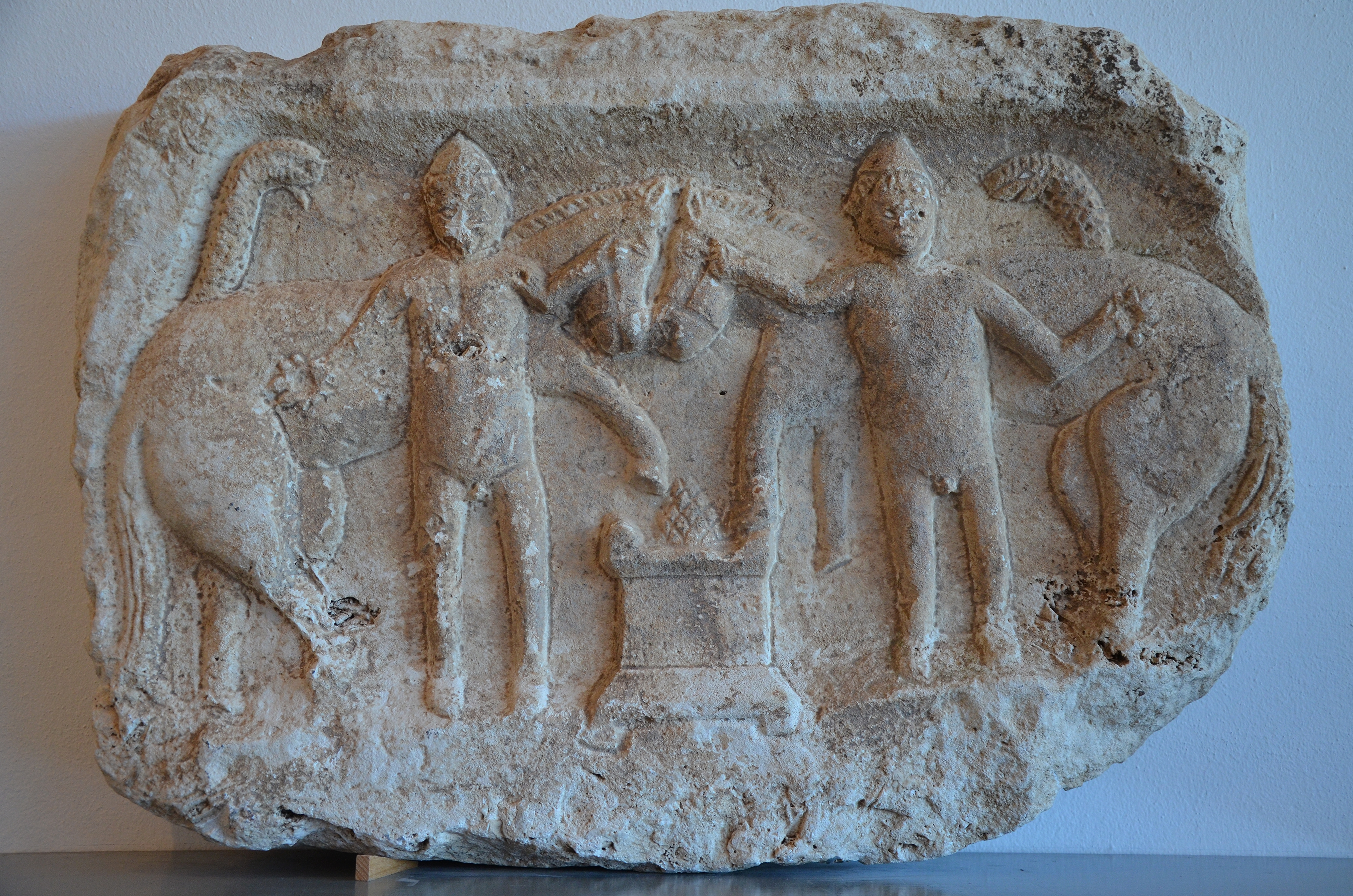 The Greek Dioskouri, Castor and Polydeuces, were the twin sons of Zeus and Leda. They were introduced in Rome circa 500 B.C. and their names were Latinised as the Castores, Castor and Pollux. They are best known for three mythological events. The first was the rescue of their sister Helen after she was kidnapped by Theseus. They carried off Theseus’ mother Aethra at the same time. In the second, they took part in the expedition on the Argo with Jason. During the voyage, Pollux killed King Amycus, who had challenged him to a boxing match. The third was their abduction of Phoebe and Hilaeira, the daughters of King Leucippus, whom they later married. Idas and Lynceus, the nephews of Leucippus, pursued the twins, and in the resulting battle, Castor, along with the nephews, were killed. Pollux was granted immortality by Zeus, but he persuaded Zeus to allow him to share the gift with Castor, as a result, the two spent alternate days on Olympus and in Hades.